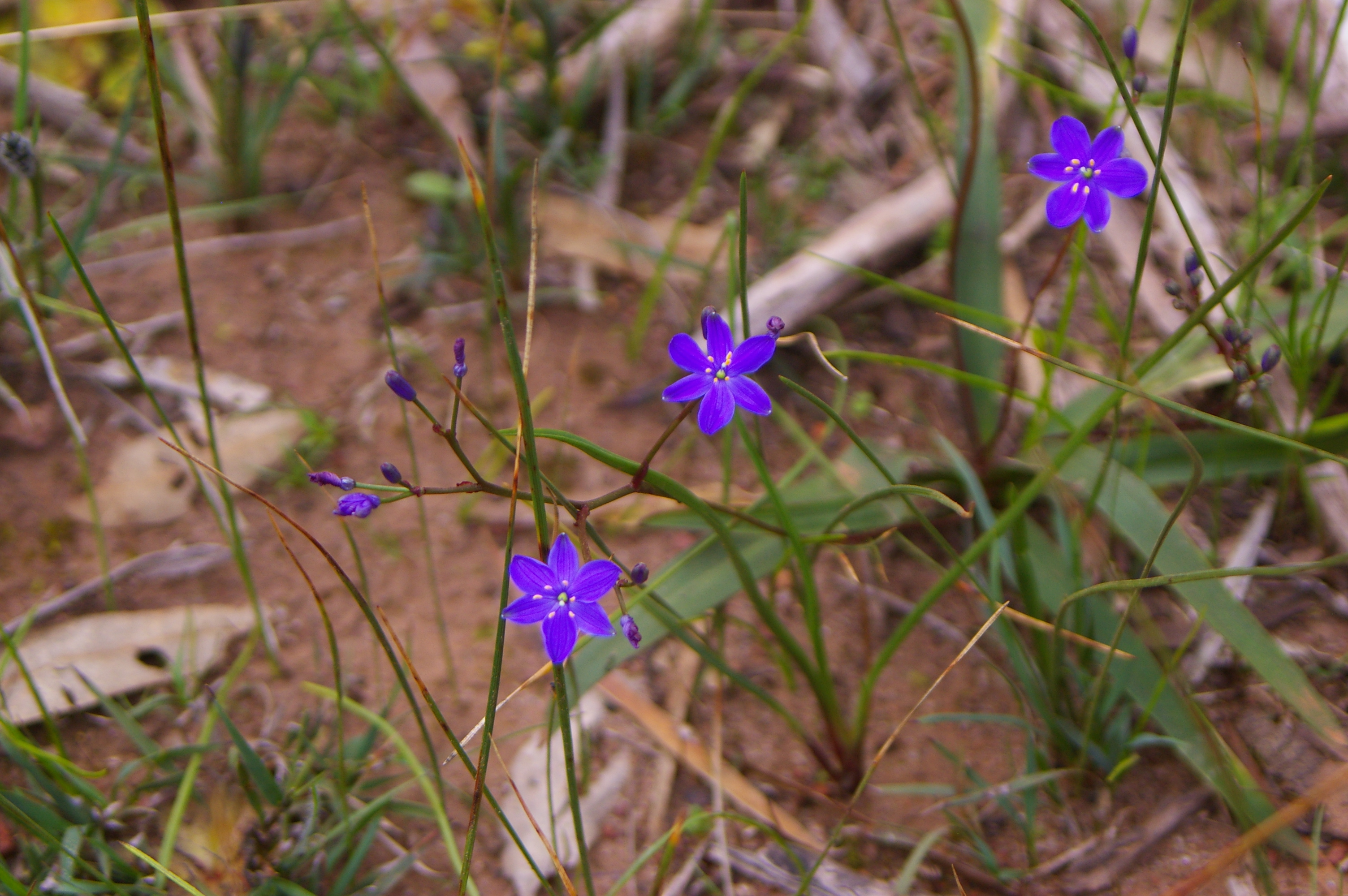 Chamaescilla, taken near Bolgart Western Australia